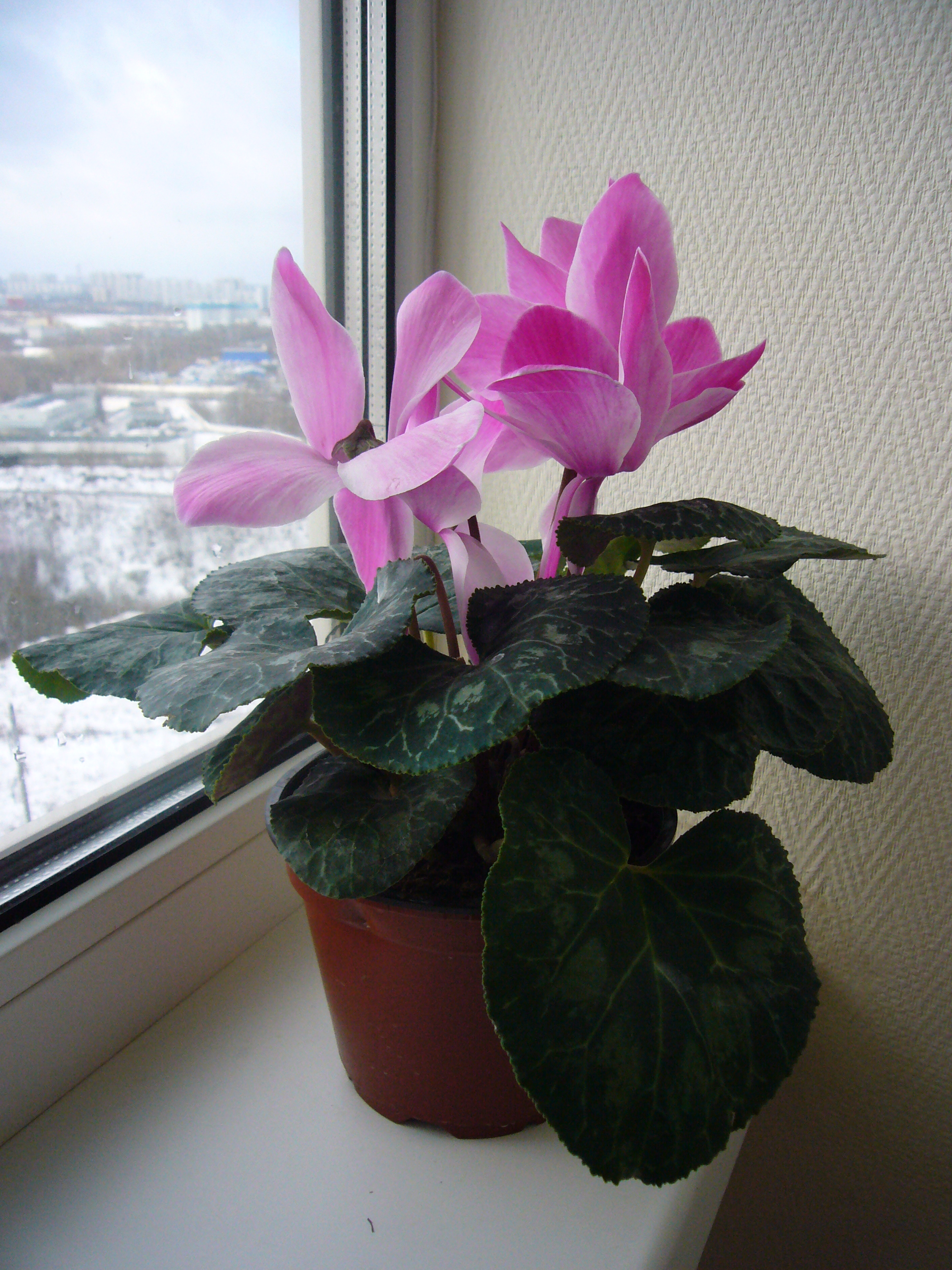 Cyclamen as a house-plant.